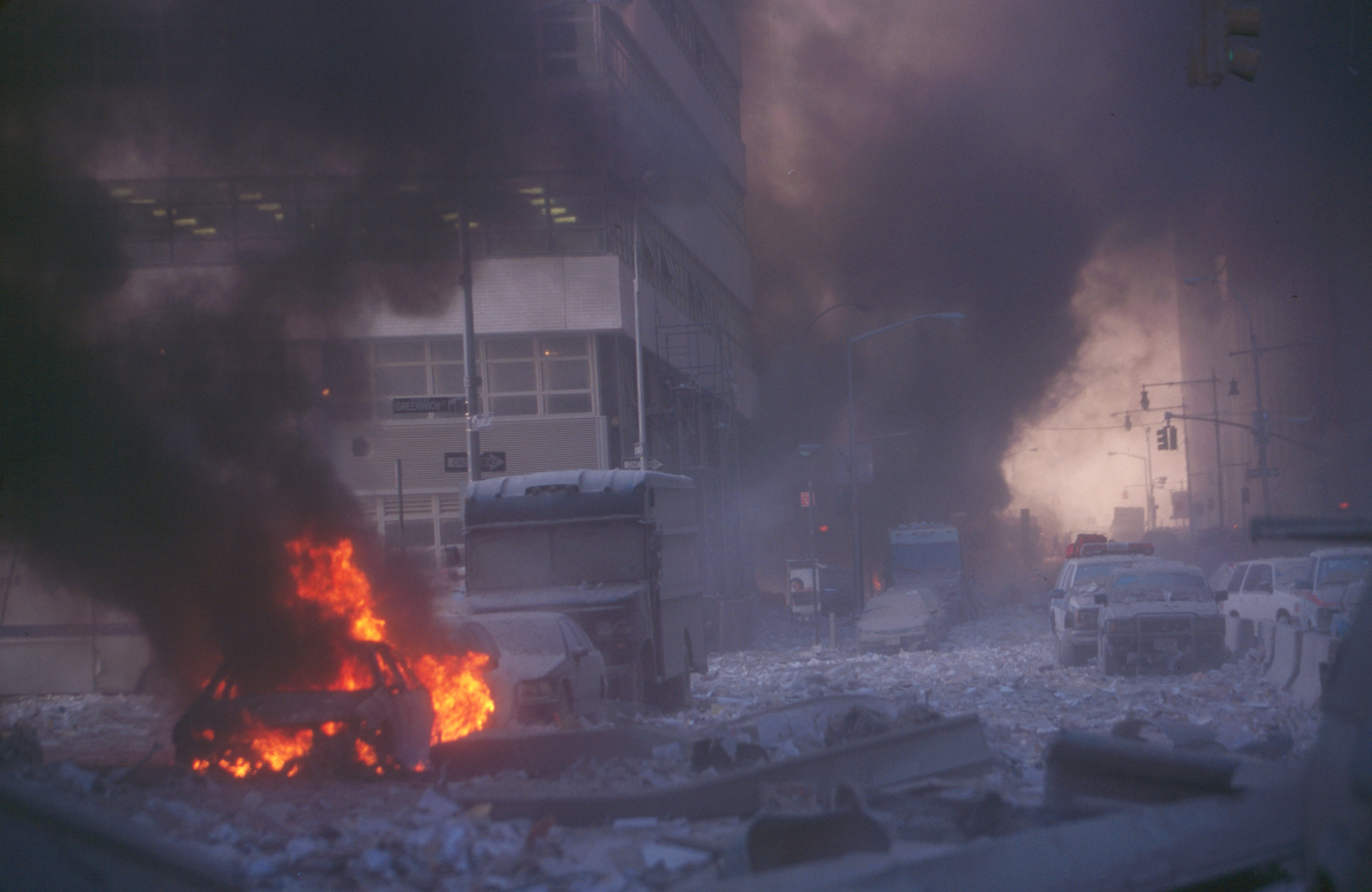 The corner of Greenwich and Barclay, facing East, near the destroyed World Trade Center on 9/11/2001.